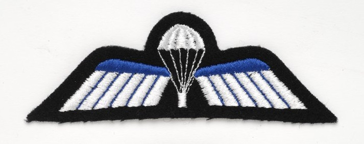 Para Wing B Netherlands